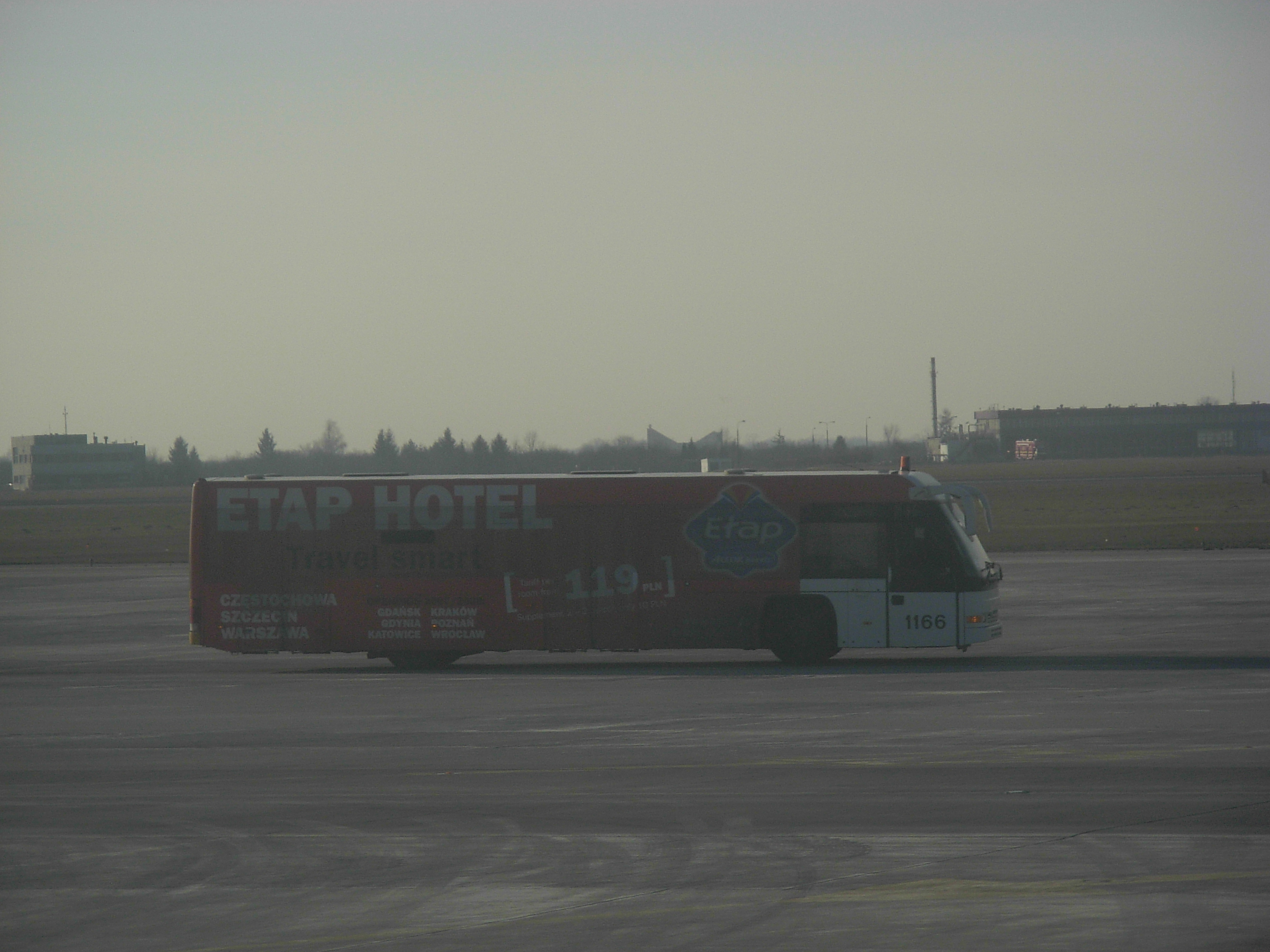 Photos from my flight Kraków-Warsaw in January 2008. Contrac Cobus 2700S bus in Okęcie Airport, Warsaw, Poland.